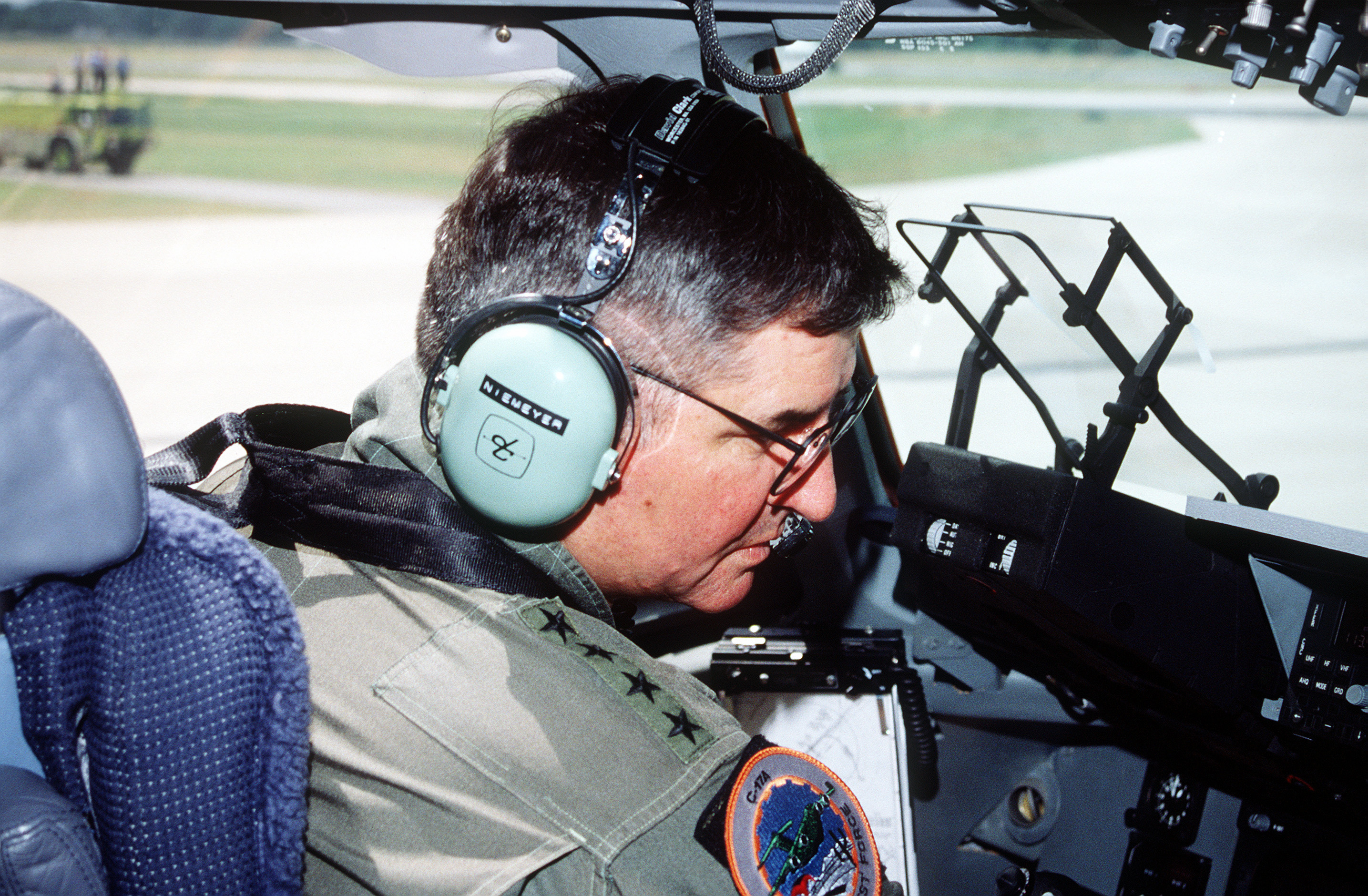 Commander of Air Mobility Command General Ronald R. Fogleman piloting the first Boeing C-17 Globemaster III being delivered to the Air Force.